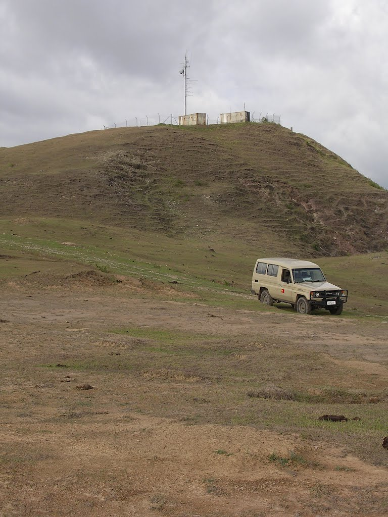 Communications tower at Laleno, Lautem, Timor-Leste